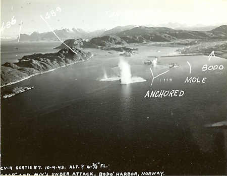 Photo showing the the German merchant ships Malaga, Cap Guir, and Rabat under attack in the Bodø Harbor, Norway, by aircraft from Carrier Air Group 4, from the aircraft carrier USS Ranger (CV-4), on 4 October 1943.